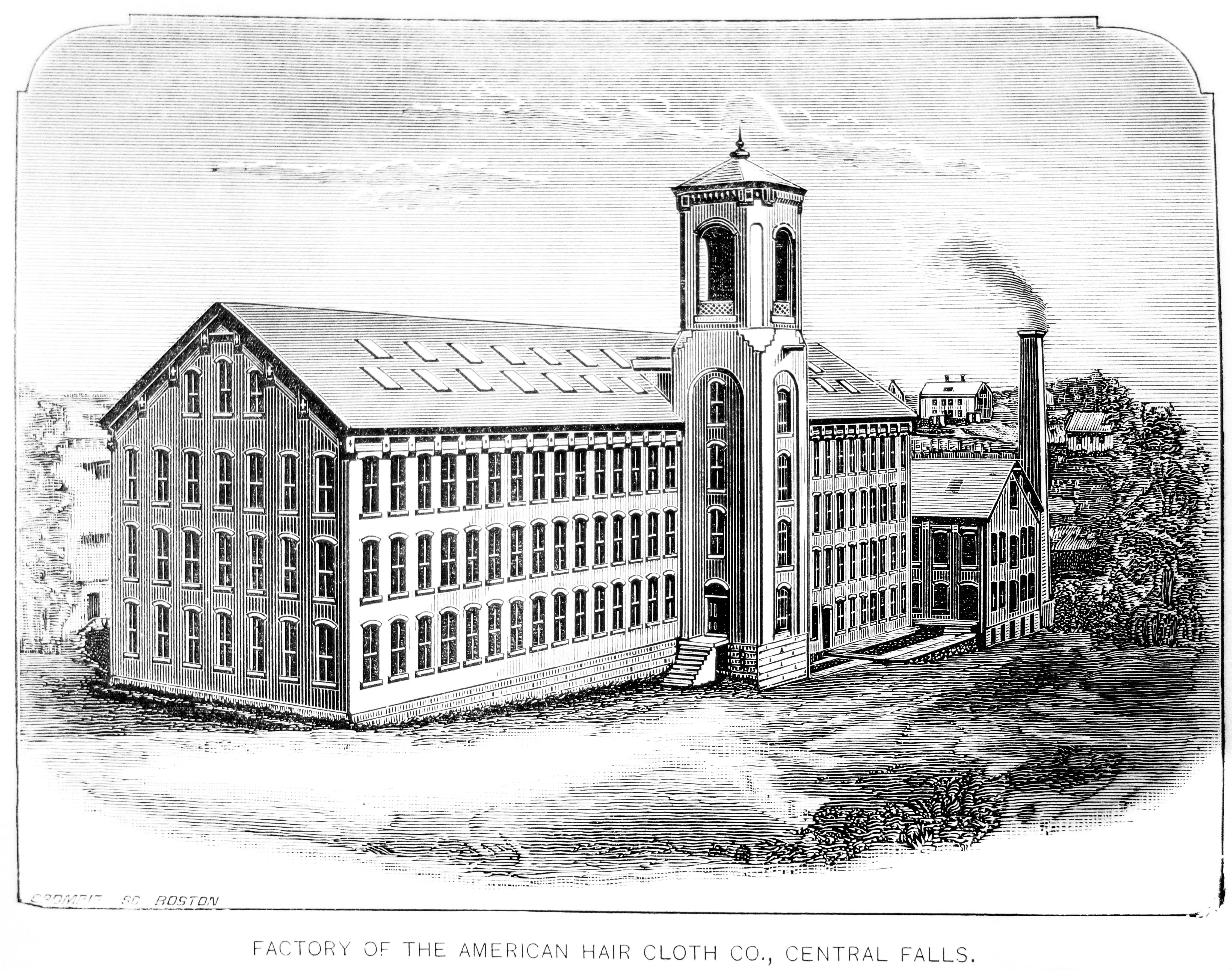 American Hair Cloth Co, Pawtucket, RI. Source: An Illustrated History of Pawtucket, Central Falls, and Vicinity, by Robert Grieve, 1897.